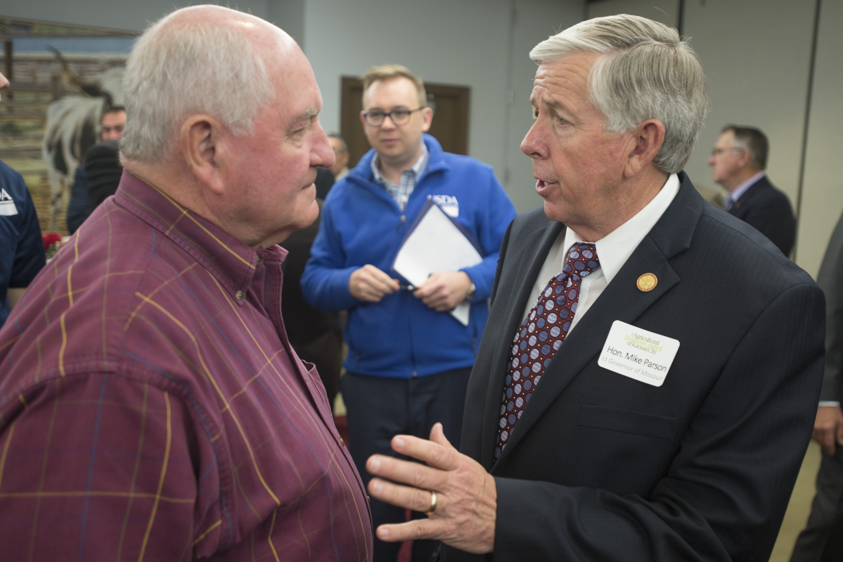 Agriculture Secretary Sonny Perdue chats with Missouri Lt. Governor Mike Parson before conducting a Town Hall with farmers, agriculture business and stockholder groups at The American Royal in Kansas City, Mo., April 28, 2017. USDA photo by Preston Keres